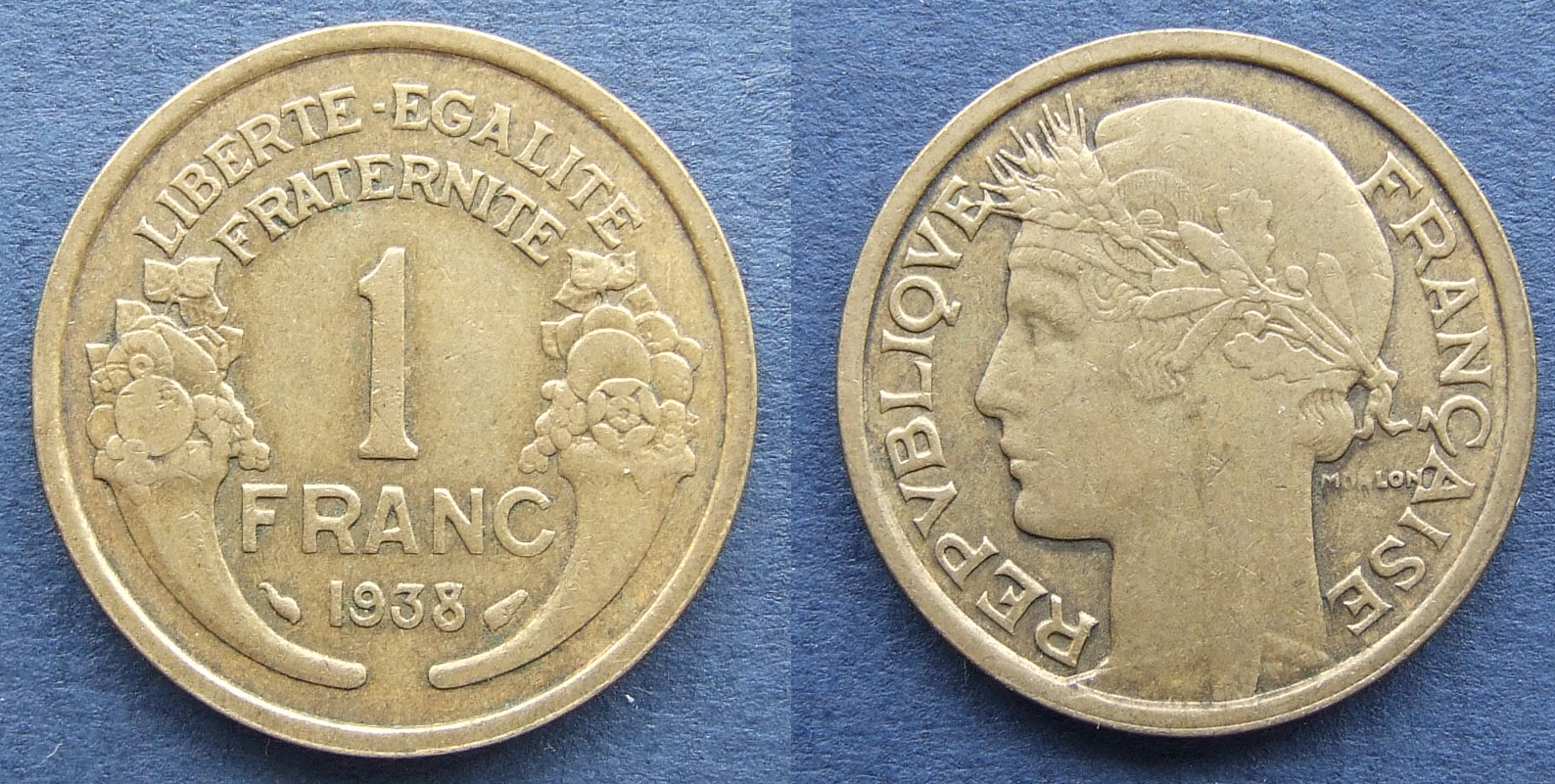 France 1 Franc 1938